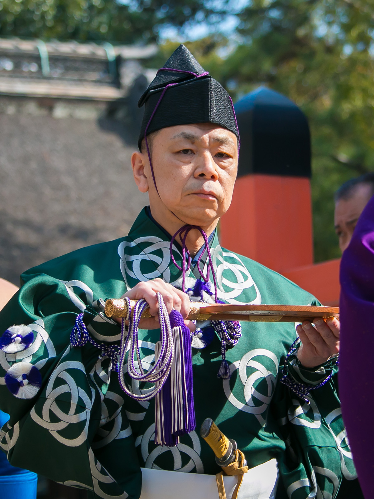 40th Shikimori Inosuke (Gyōji) in Sumiyoshi taisha.